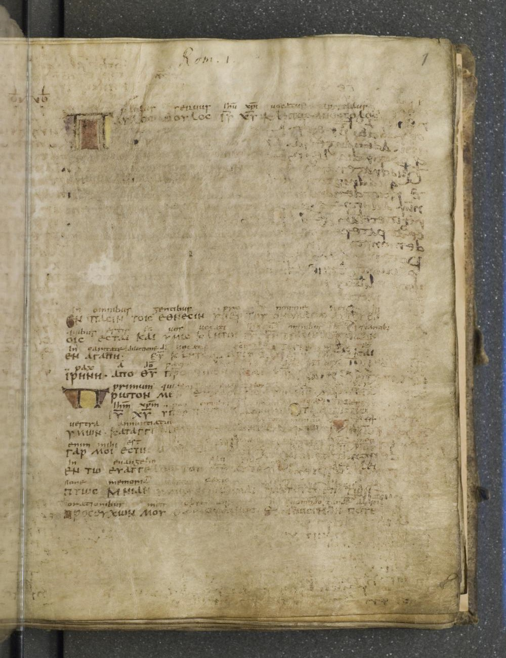 Codex Boernerianus, Uncial 012 (Gregory-Aland), manuscript of the New Testament, digitised by SLUB in 2008